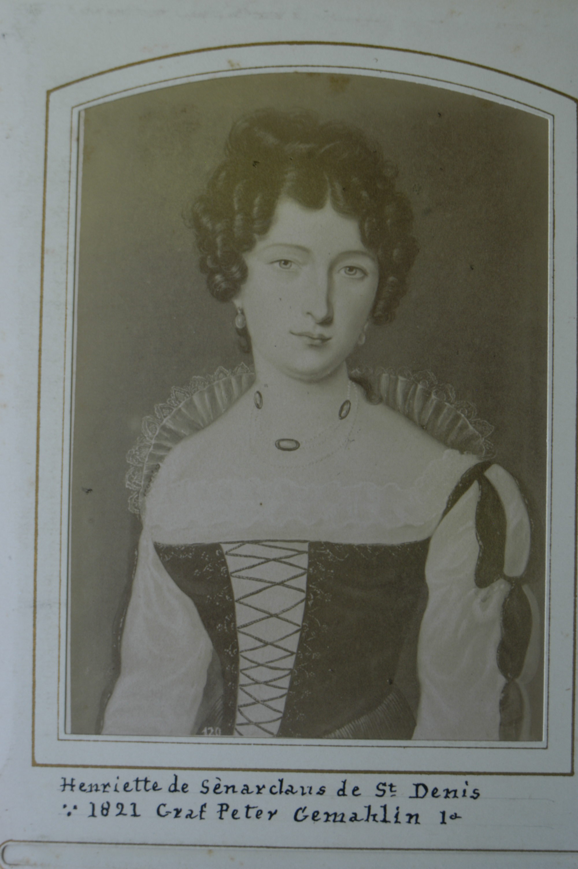 Photo (by me, R. de SalisRodolph (talk) 08:11, 4 July 2014 (UTC)) of a photo of a painting of Henriette Charlotte de Senarclens de St. Denys de Grancy (1797-1822), first wife to Pierre Jean (5th) Count de Salis. Other information Daughter of César-Augute de Senarclens, 1763-1836, seigneur de St. Denis et de Grancy, chef de bataillon aux gardes suisses de France, by Louise Marie* Claudine Rose Elisabeth de Loriol, 1773-1836, aus Etoy. (